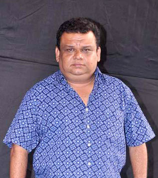 Colors indian telly awards